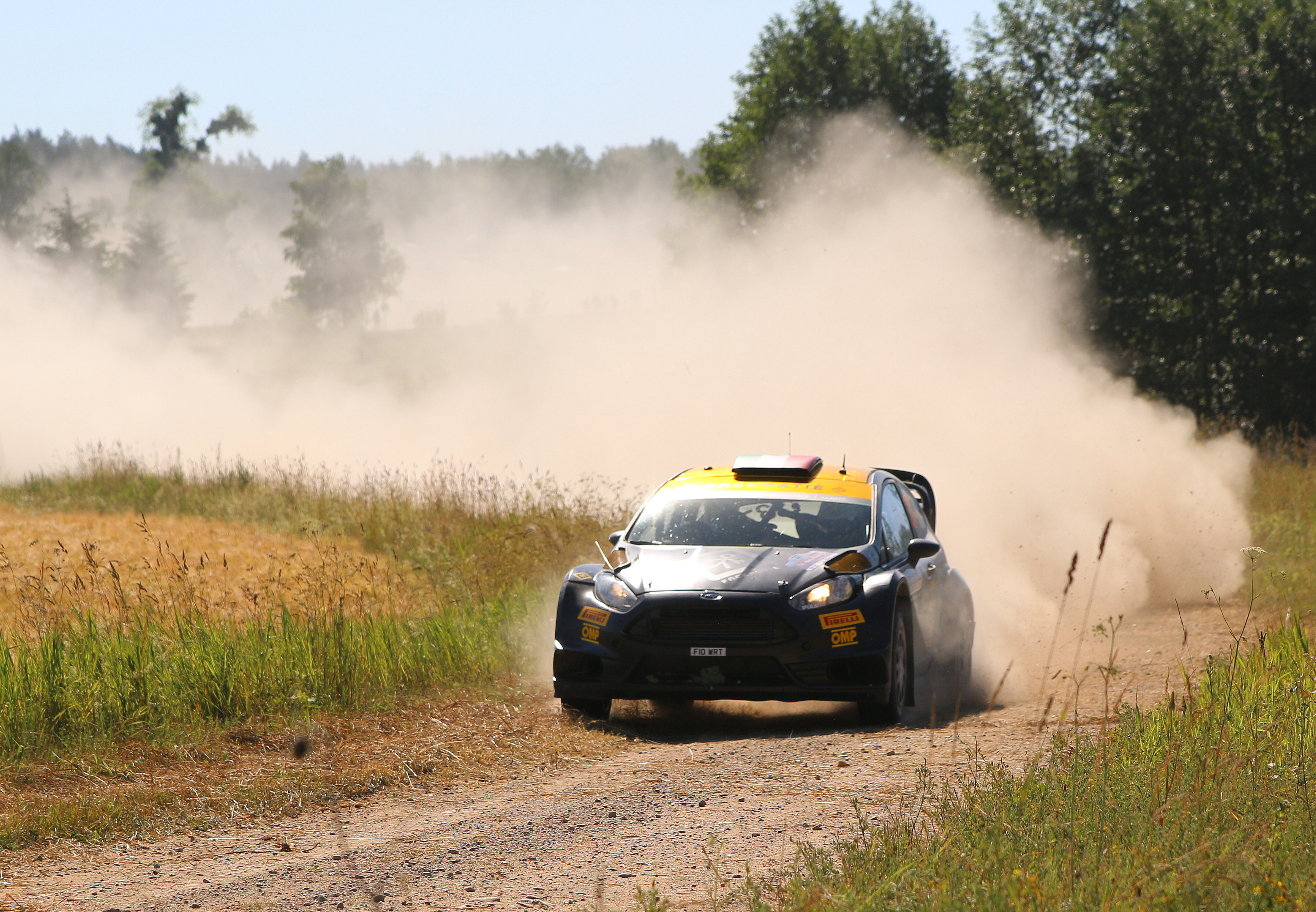 Lorenzo Bertelli, OS 10 Mazury, 72nd LOTOS Rally Poland